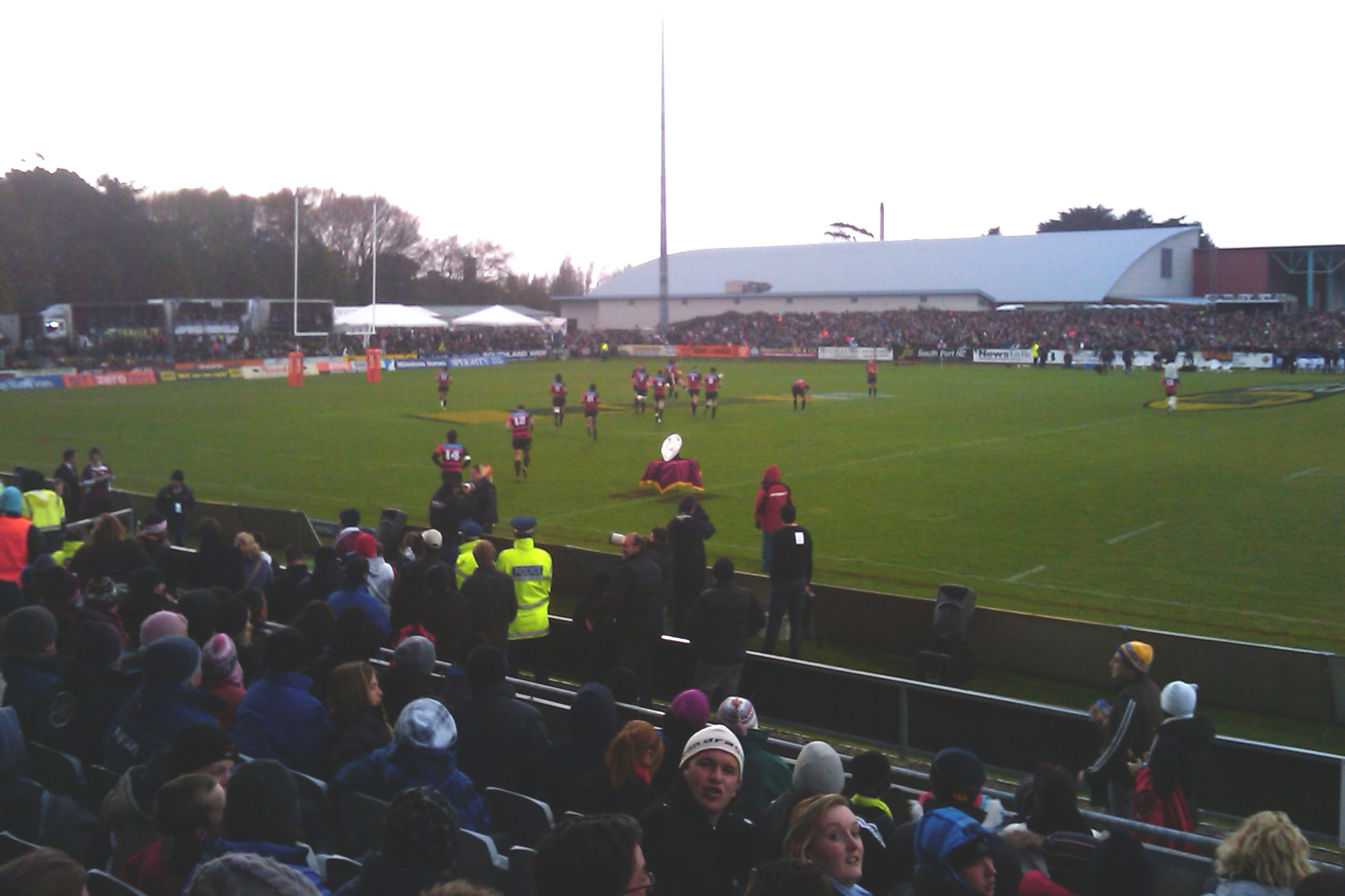 Rugby park in Invercargill as seen from the main stand during the Southland vs Canterbury Ranfurly Shield match in October 2010.